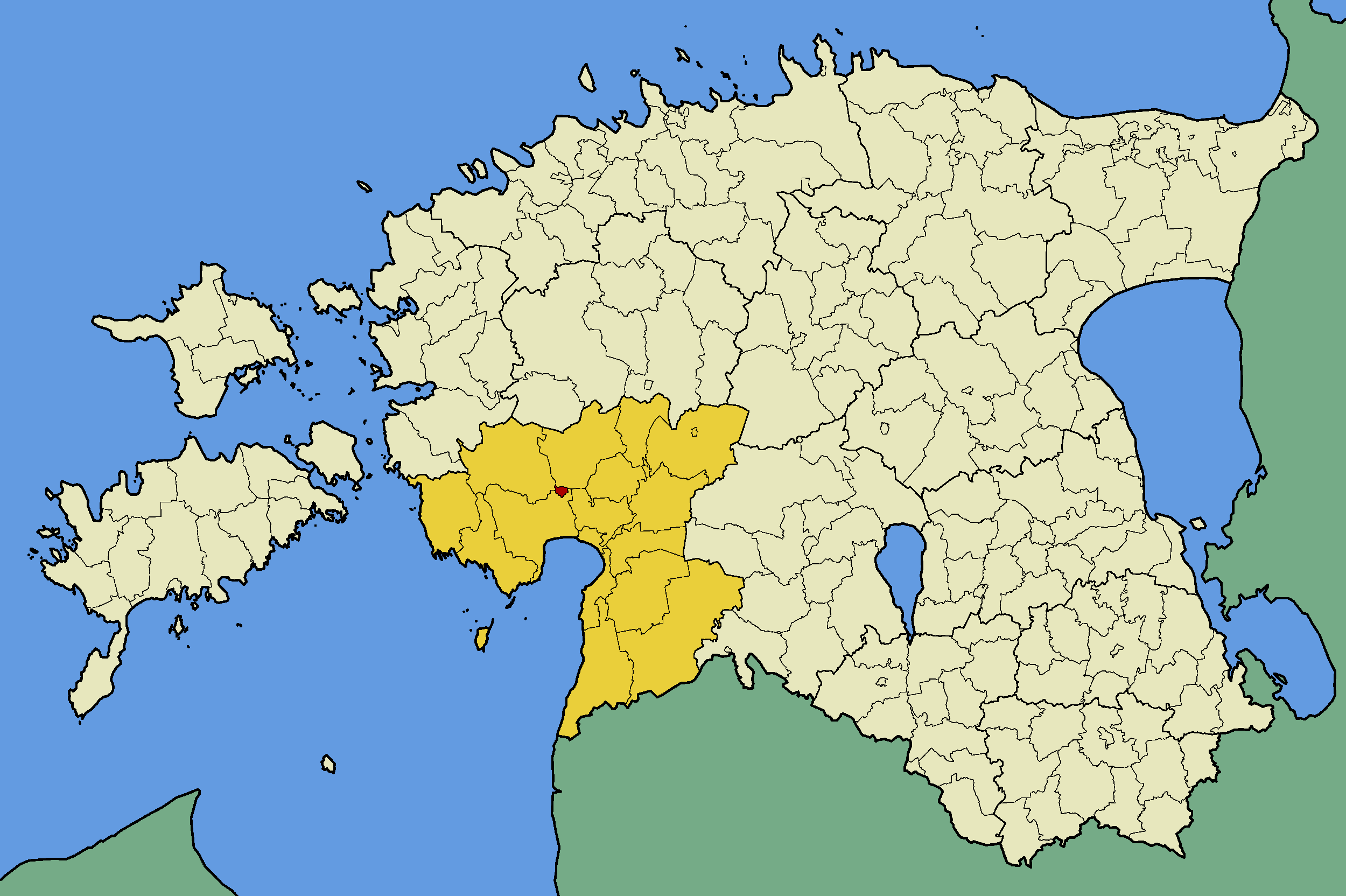 Map of Estonia with borders of municipalities (parishes). Pärnu county and Lavassaare municipality emphasized.